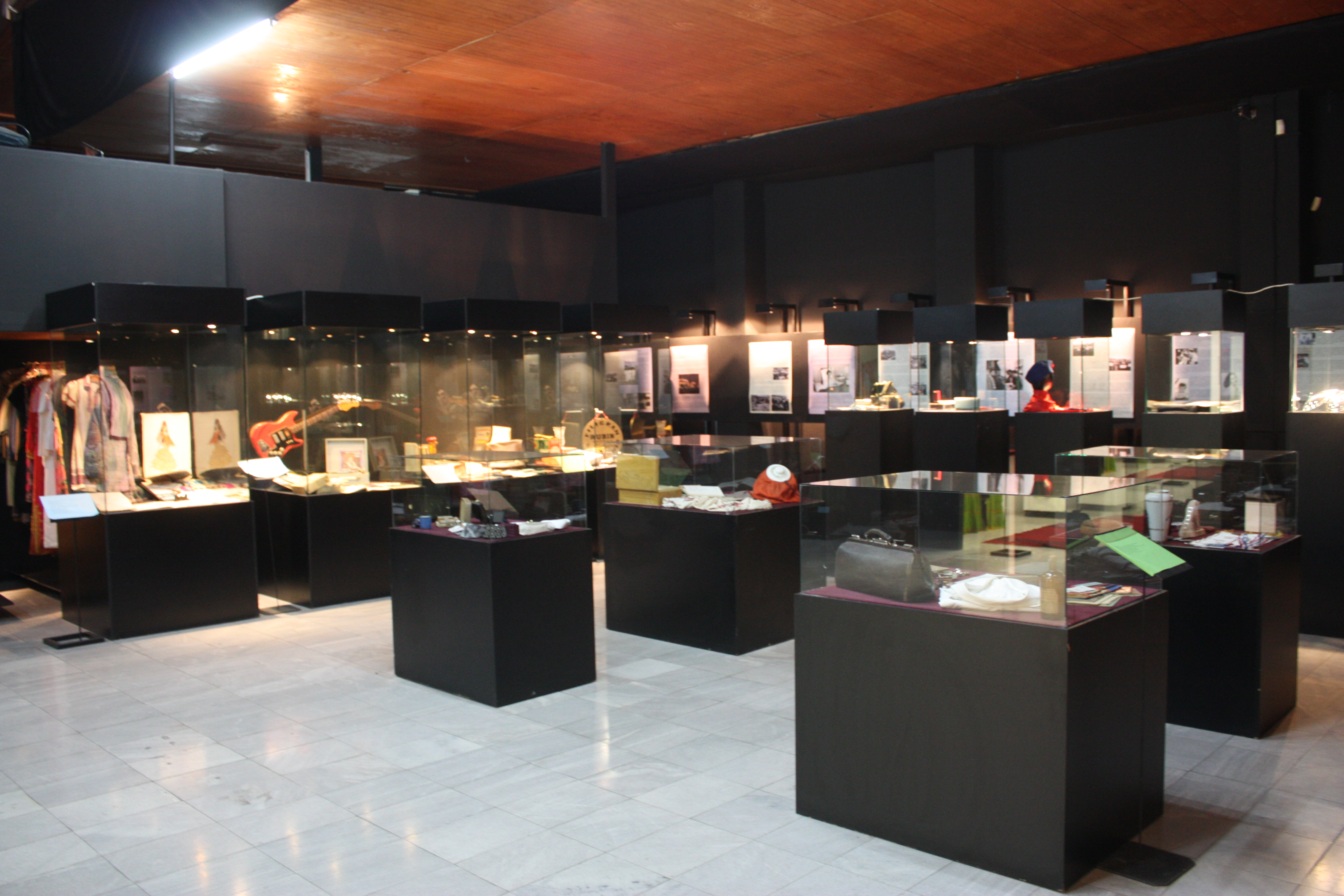 Ethnological section of the Museum of Skopje, Macedonia